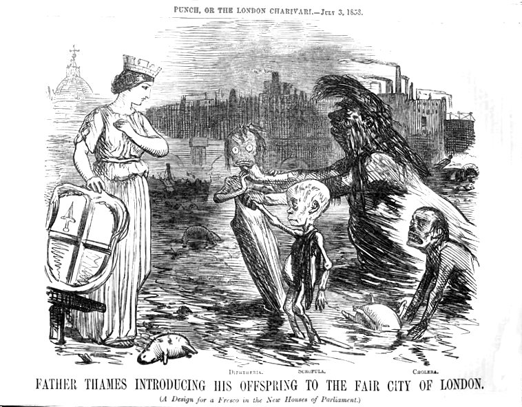 Caricature published in Punch at the time of the "Great Stink". The River Thames introduces his children – diphtheria, scrofula and cholera – to the city of London, showing some understanding that the river was a danger to health.